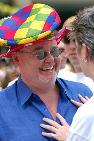 Toronto Councillor Kyle Rae at the Pride Week celebrations in 2006